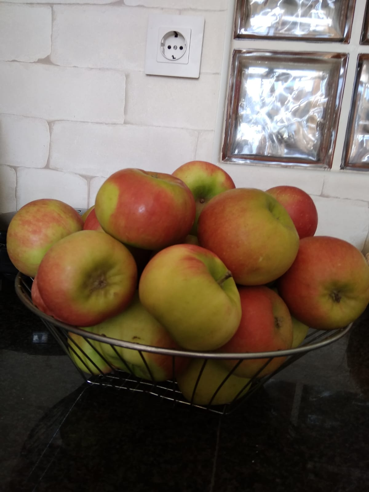 Malus domestica, 'Manzana roja de Benejama' variety